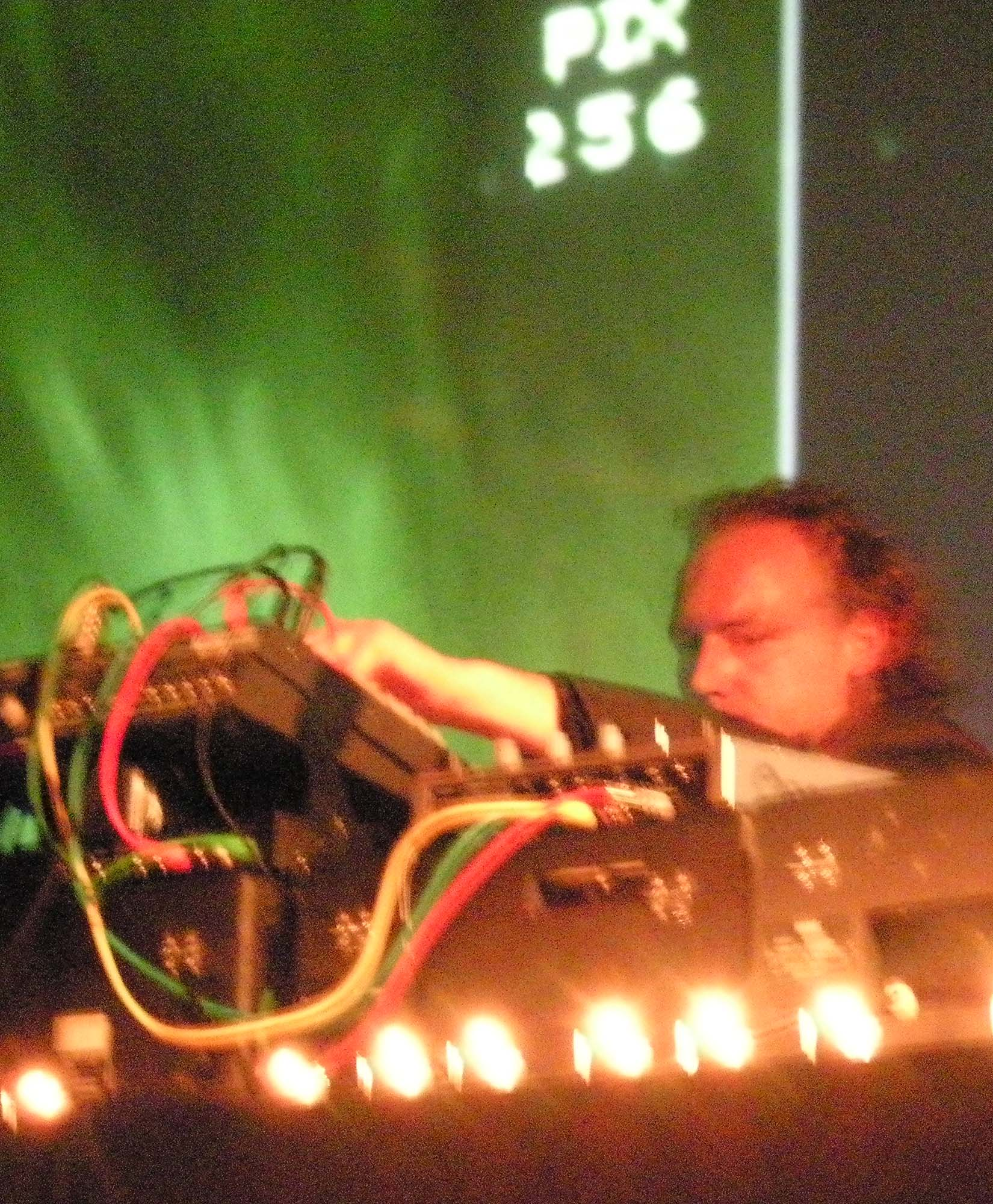 Austrian Band TOSCA performing 'No Hassle' (their new album) at Minoritenkirche, Vienna. Note: Camera time is set on UTC, which is local time -2.